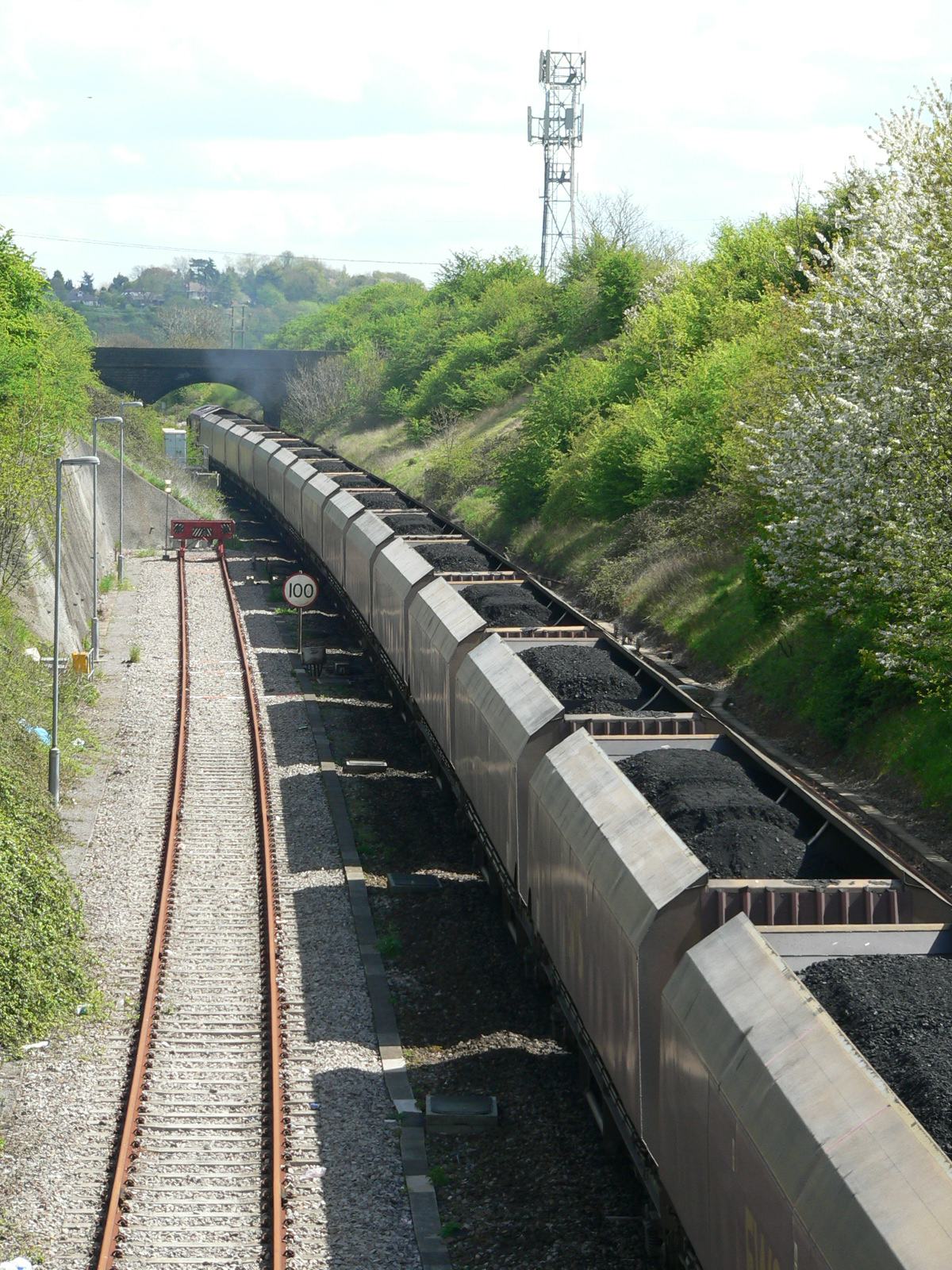 A rake of loaded coal wagons hauled by EWS Class 66 locomotive 66230 photographed looking east from a bridge over the railway about a third of a mile east of Bristol Parwkway. This eastbound freight service is most likely leading to Didcot Power Station.